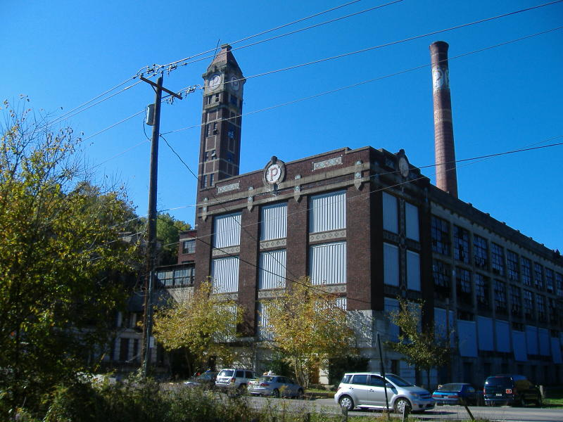 Taken by me R. Myers on 10/08/2006 from the Little Miami Bike Trail. I hereby release this to the public domain.